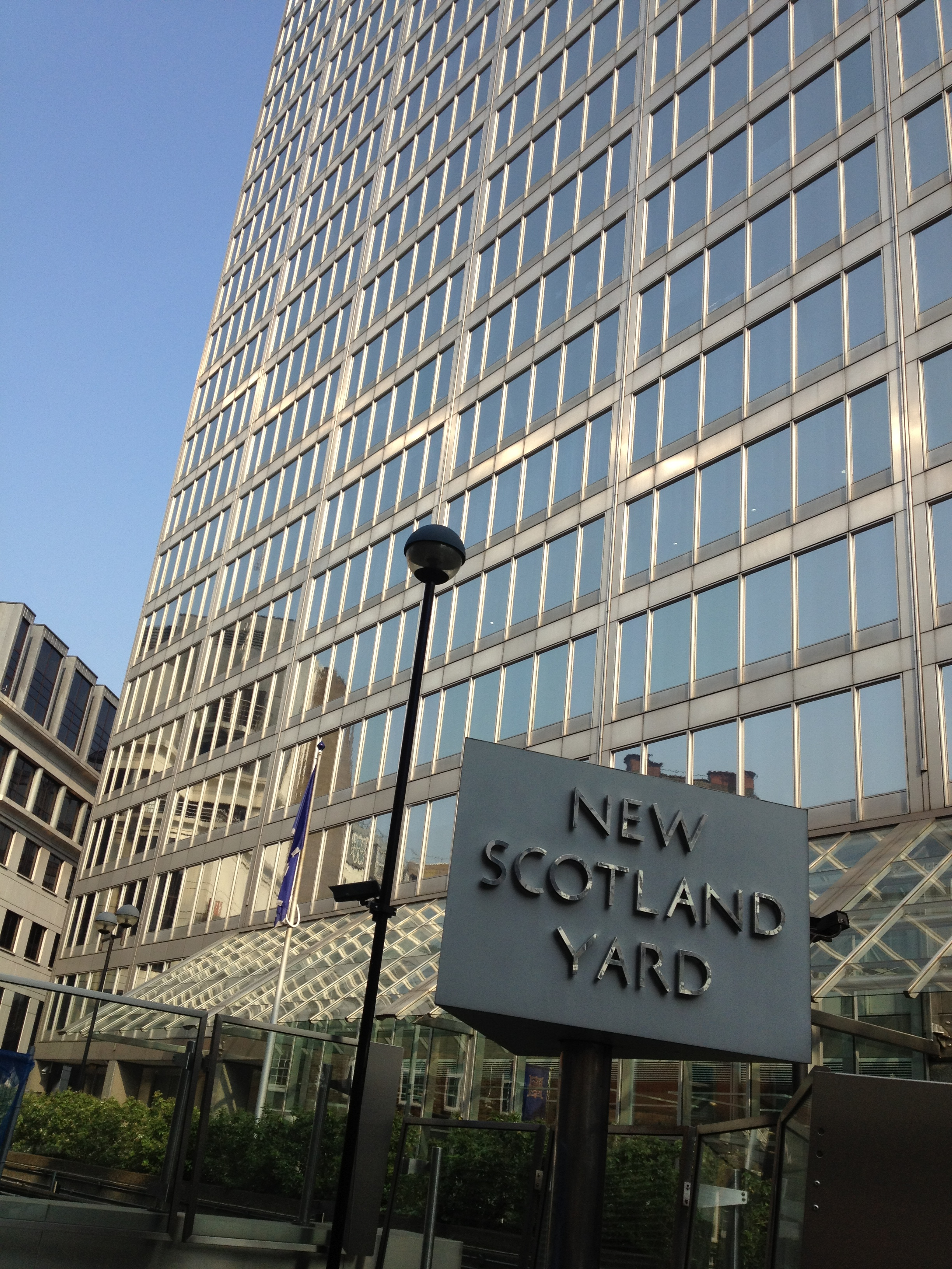 Sign in front of the Metropolitan Police Service building at New Scotland Yard